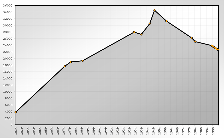 This image shows the population statistics of Crimmitschau (Germany).